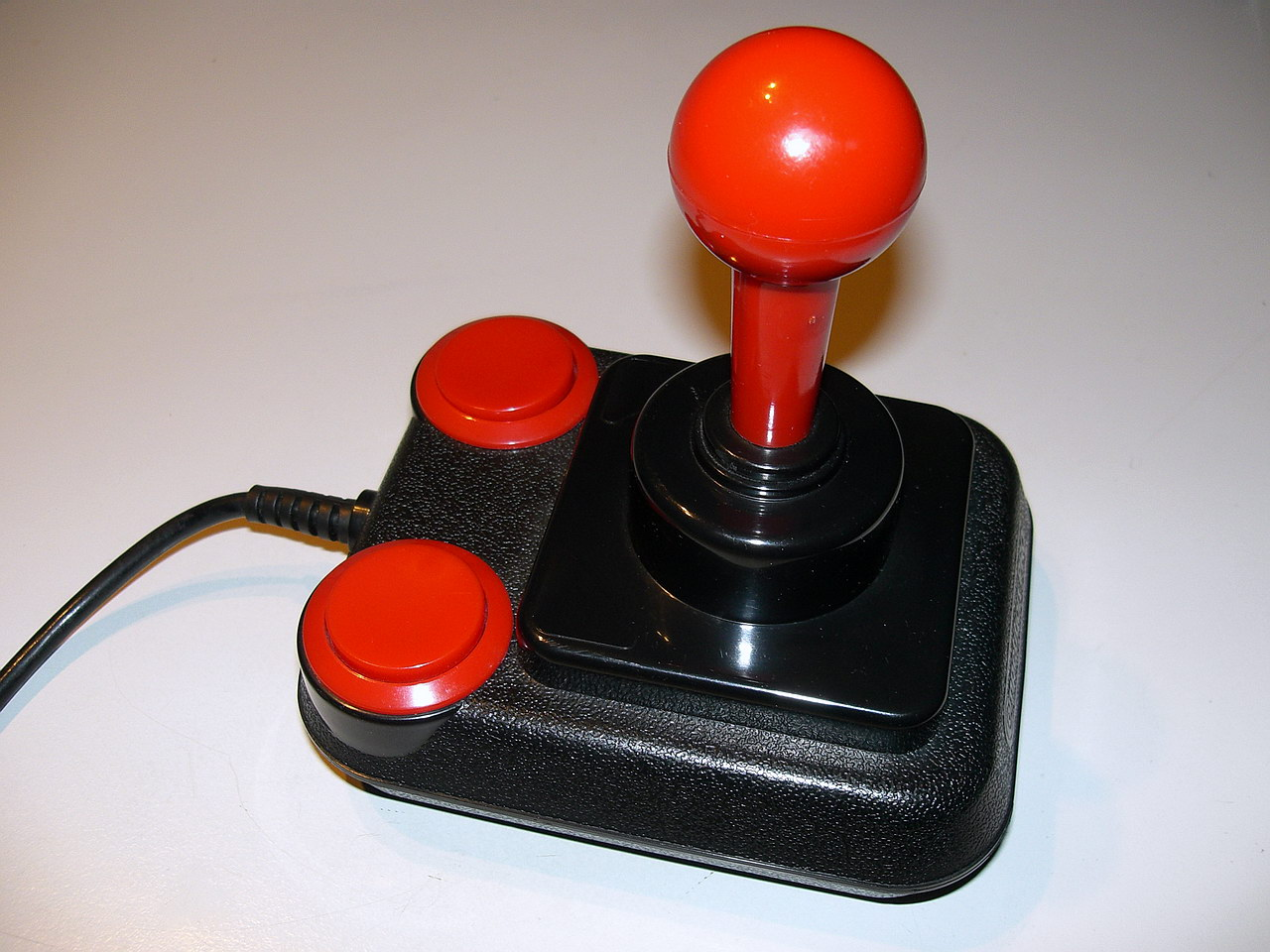 Competition Pro joystick.